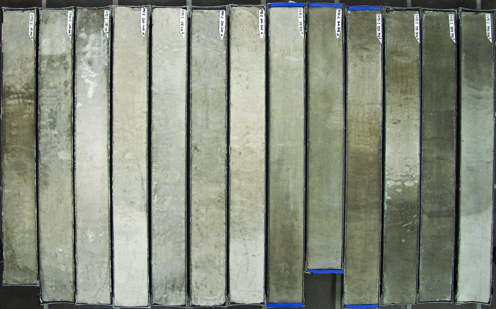 Sediment core from the South Atlantic, 13 m in length (PS2492-2, position 43°10.40′S 4°03.30′W / 43.1733°S 4.055°W, water depth 4207 m). Colour variations reflect changing sedimentary conditions and are synchronous with the Quaternary climatic cycles. Lighter colours indicate a higher amount of microfossils and are related to warmer periods in this record spanning the last 800 ka.